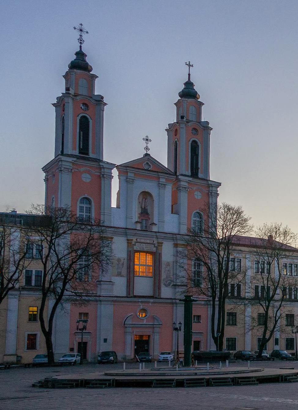 Church of Saint Francis Xavier after the reconstruction in Kaunas, Lithuania.